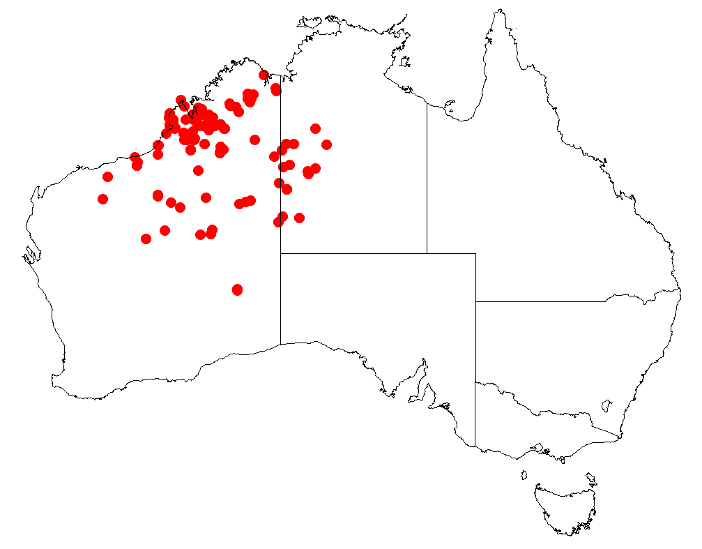 Velleia panduriformis Occurrence data downloaded from Australasian Virtual Herbarium}AVH on 10 September 2018